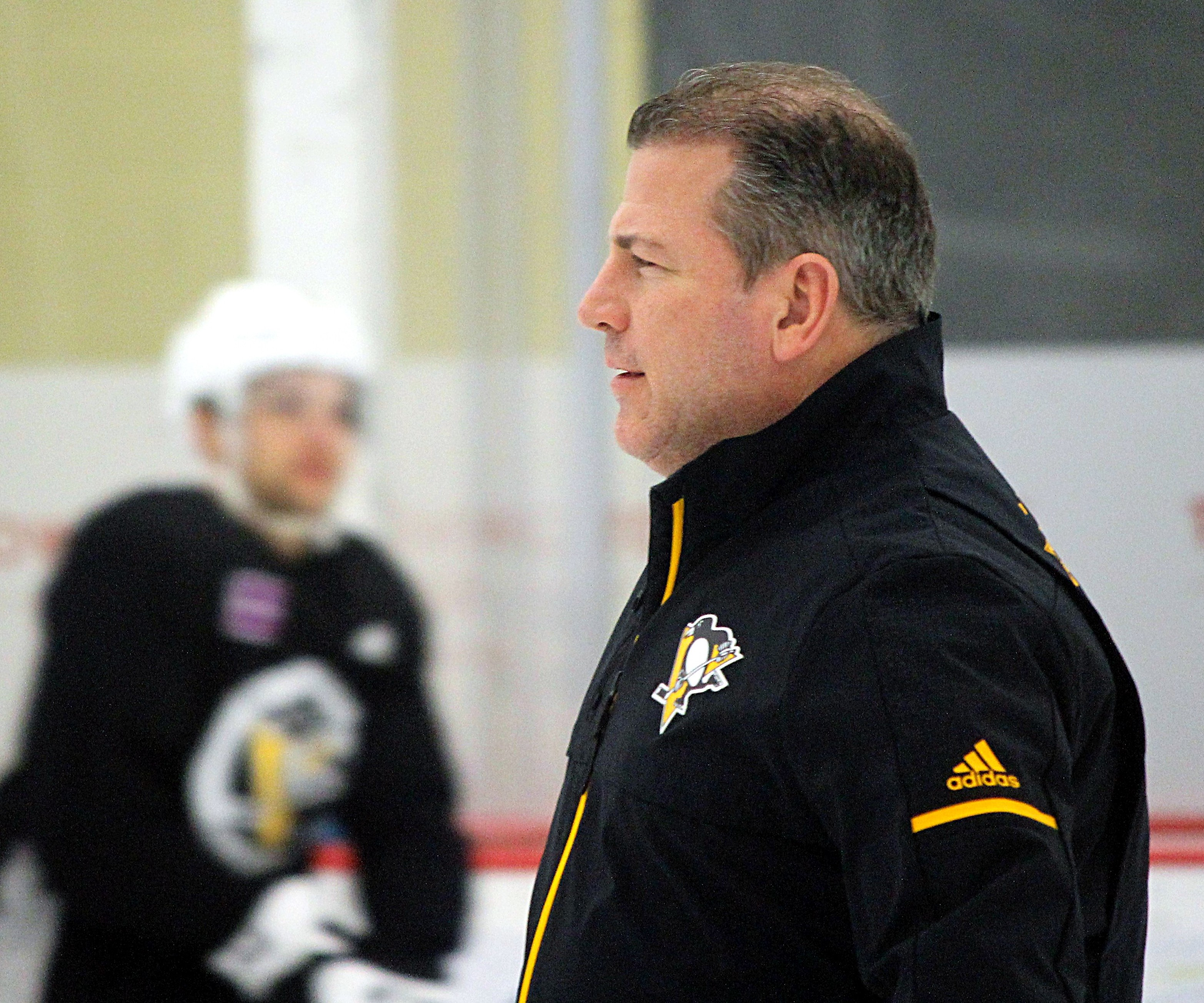 Pittsburgh Penguins assistant coach Mark Recchi during practice at UPMC Lemieux Sports Complex in Cranberry Twnshp, PA. Friday, March 2, 2018.